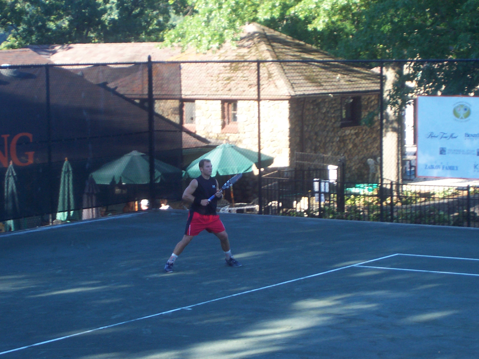 Michael Russell Playing In New City, New York